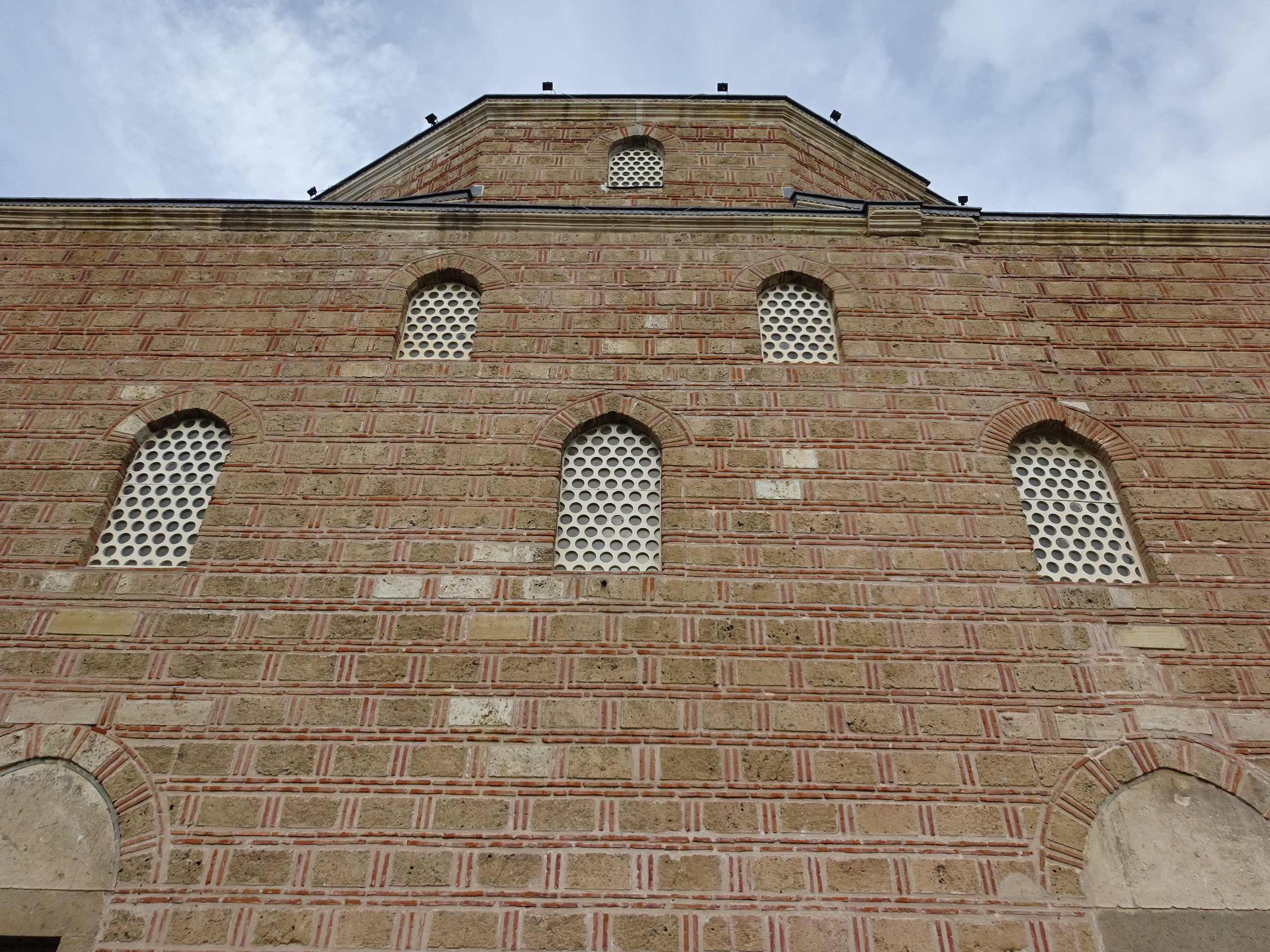 Mustafa-Pasina Mosque-Macedonia Ова е фотографија на споменик на културата во Македонија со типски код: A02This is a a photo of a cultural monument in North Macedonia with type id: A02